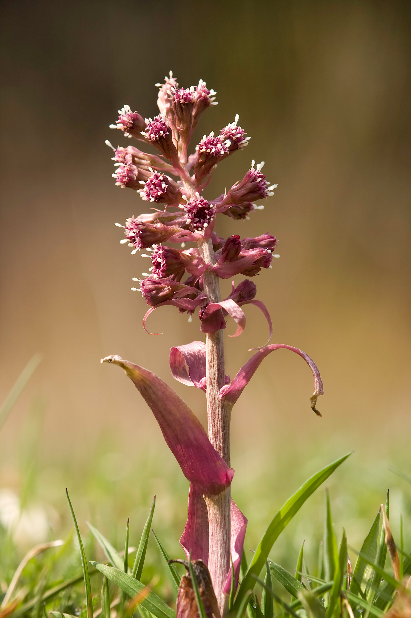 Common Butterbur (Petasites hybridus) is a herbaceous perennial plant in the family Asteraceae, native to Europe and northern Asia